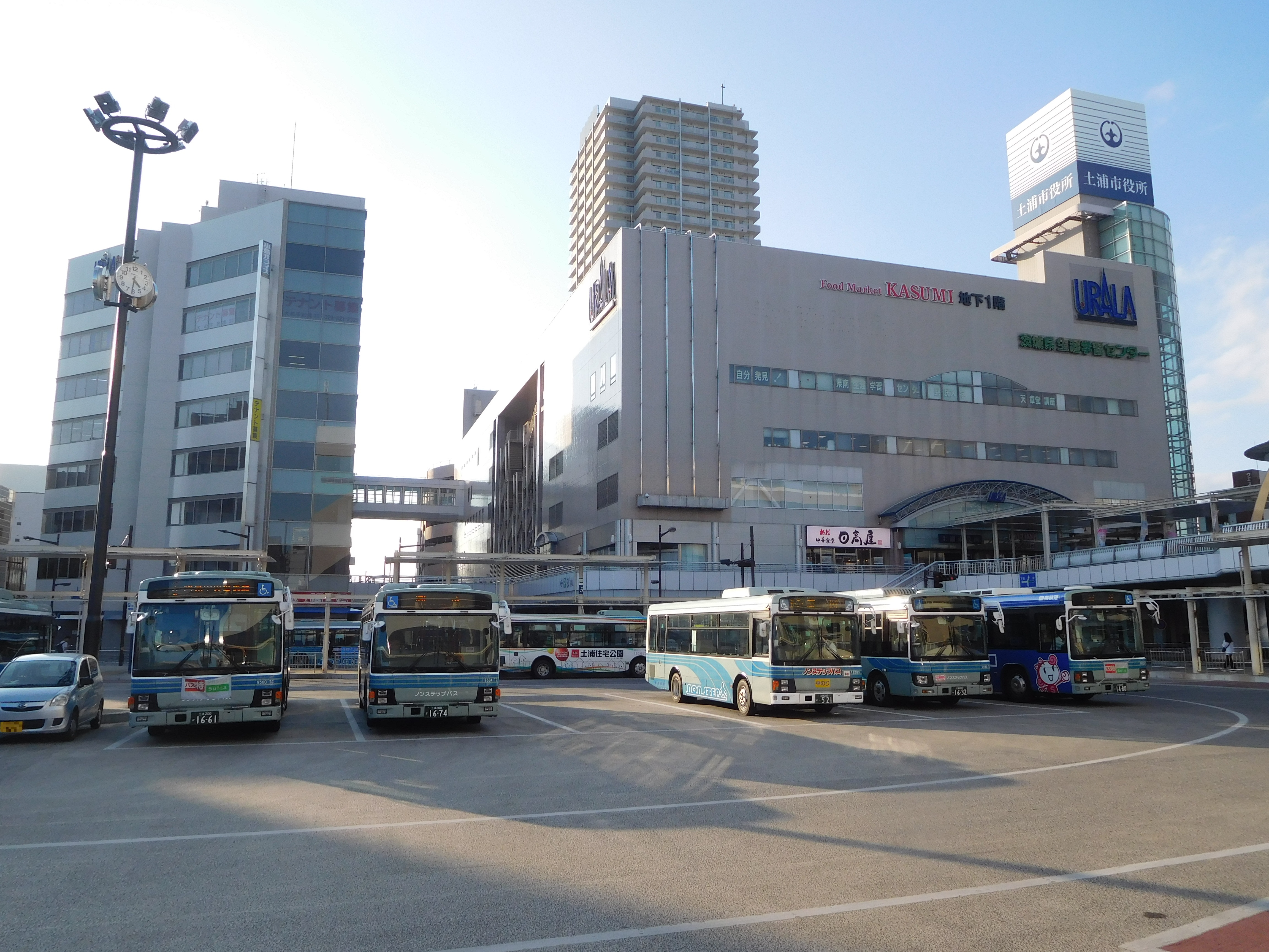 This is the bus terminal of Tsuchiura station west side in Tsuchiura, Ibaraki, Japan.